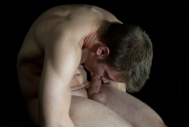 Autofellatio Example Personality rights warningAlthough this work is freely licensed or in the public domain, the person(s) shown may have rights that legally restrict certain re-uses unless those depicted consent to such uses. In these cases, a model release or other evidence of consent could protect you from infringement claims.